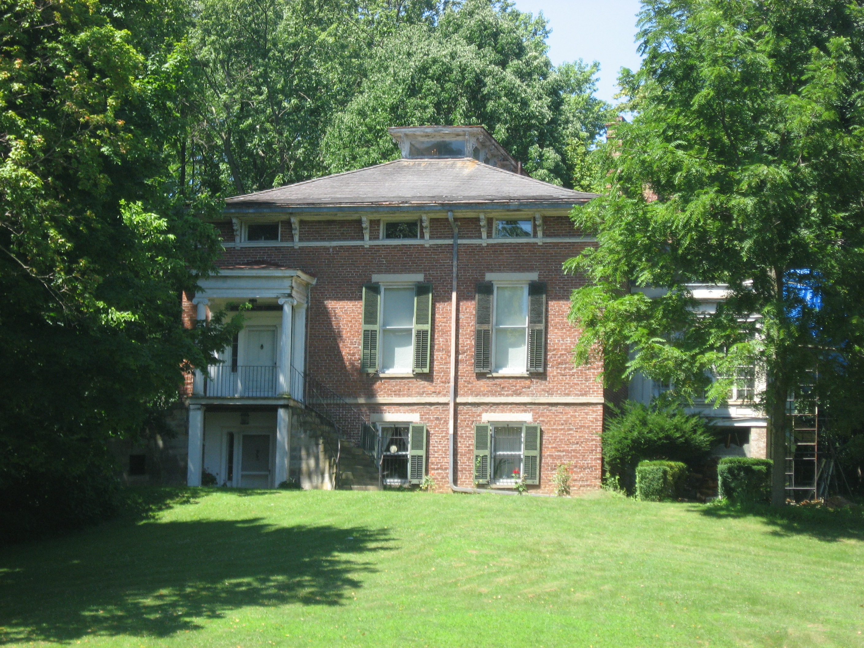 Front of Tanglewood, located at 177 Belleview Avenue on the southwestern side of Chillicothe, Ohio, United States. A monitor house built in 1850, it is listed on the National Register of Historic Places.